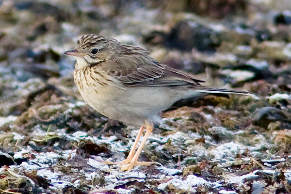 Blyth's Pipit (Anthus godlewskii) in Kohall, Träslöv, Halland, Sweden. Cropped